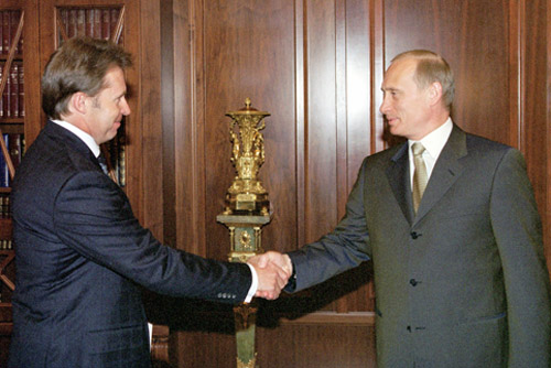 THE KREMLIN, MOSCOW. President Vladimir Putin with Sergei Bogdanchikov, president of Rosneft.